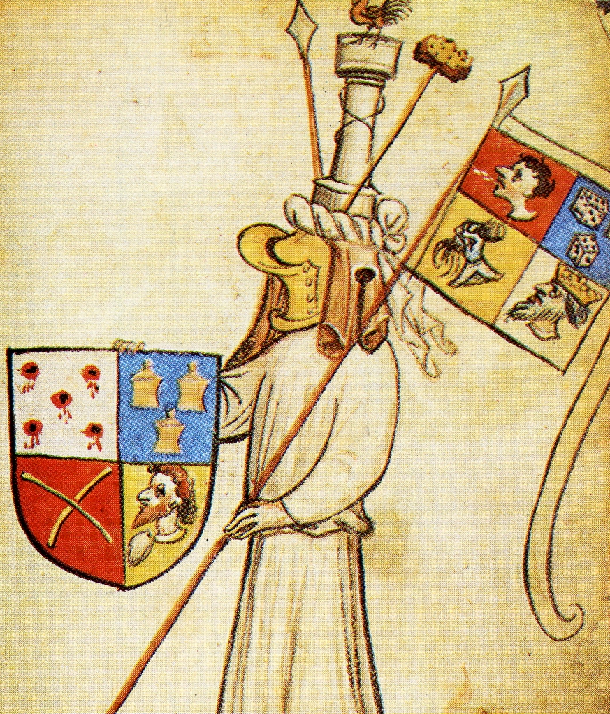 An image of Jesus, represented as a medieval armiger (includes the five wounds, and the dice with which the Roman soldiers gambled for Jesus' garment). The picture comes from the middle of the 15th century Hyghalmen Roll which is now at the College of Arms. Medieval officers of arms thought it important that notable individuals from before the heraldic age should have arms attributed to them.